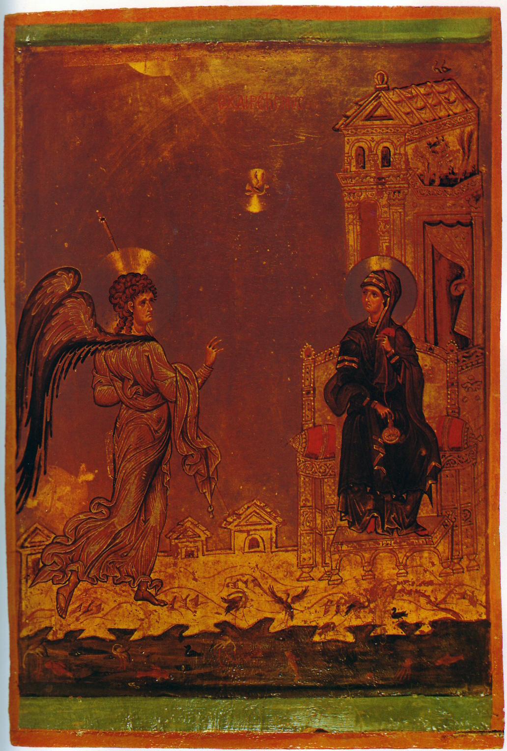 Mary's Annunciation, late Komnenos icon from the end of the 12th century. 61 x 42 cm